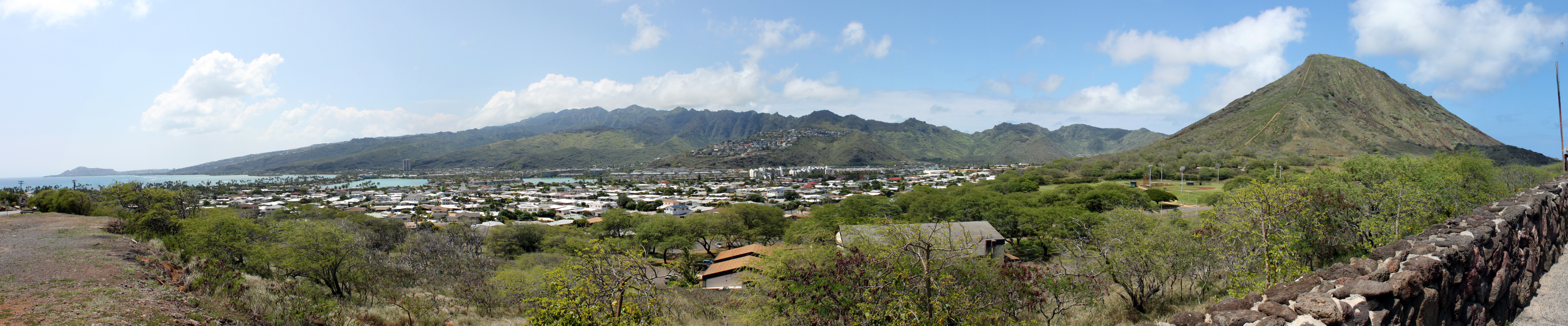 Panoramic view of the Koko Head and its surroundings.